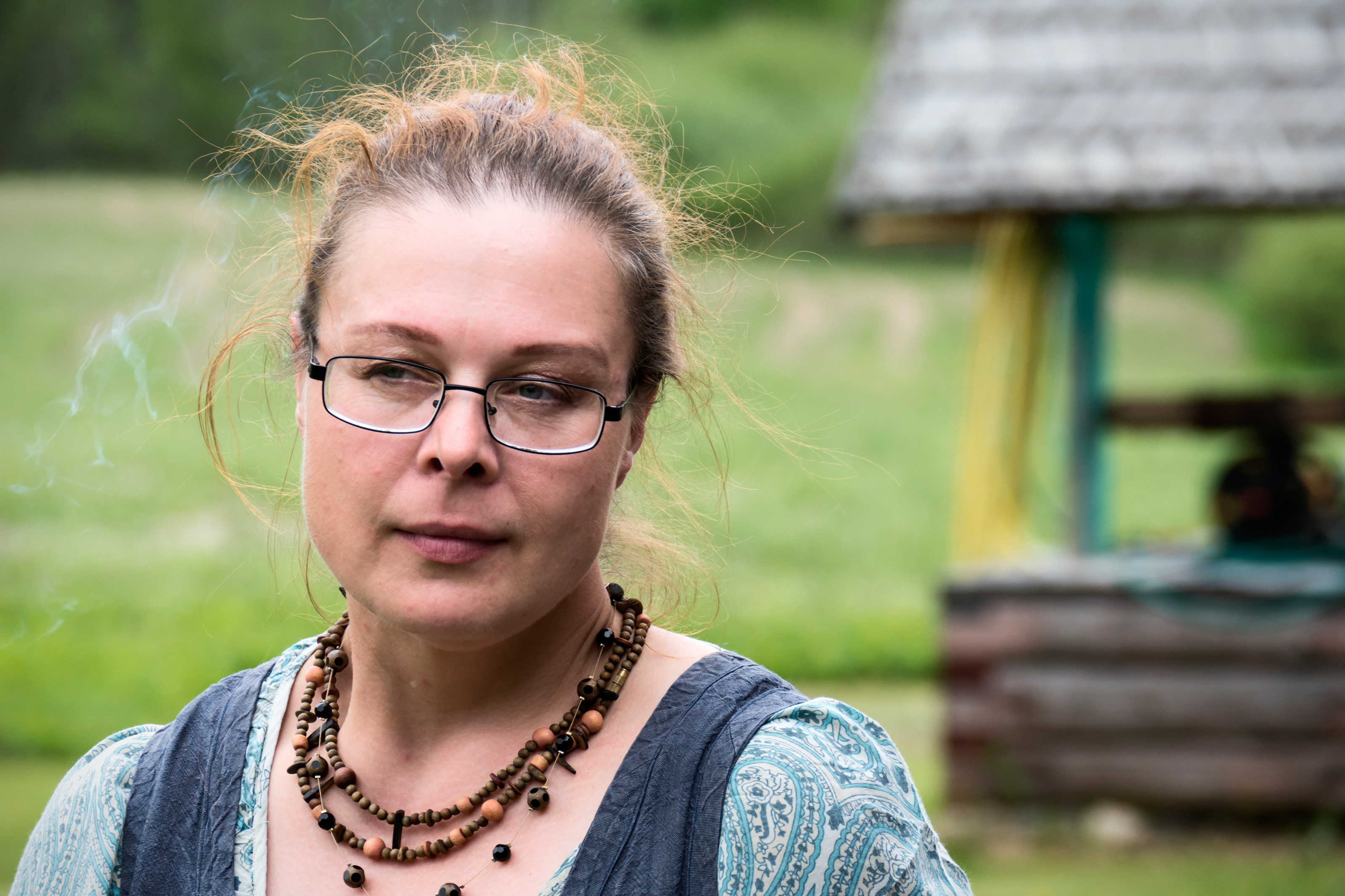 Estonian writer Aidi Vallik